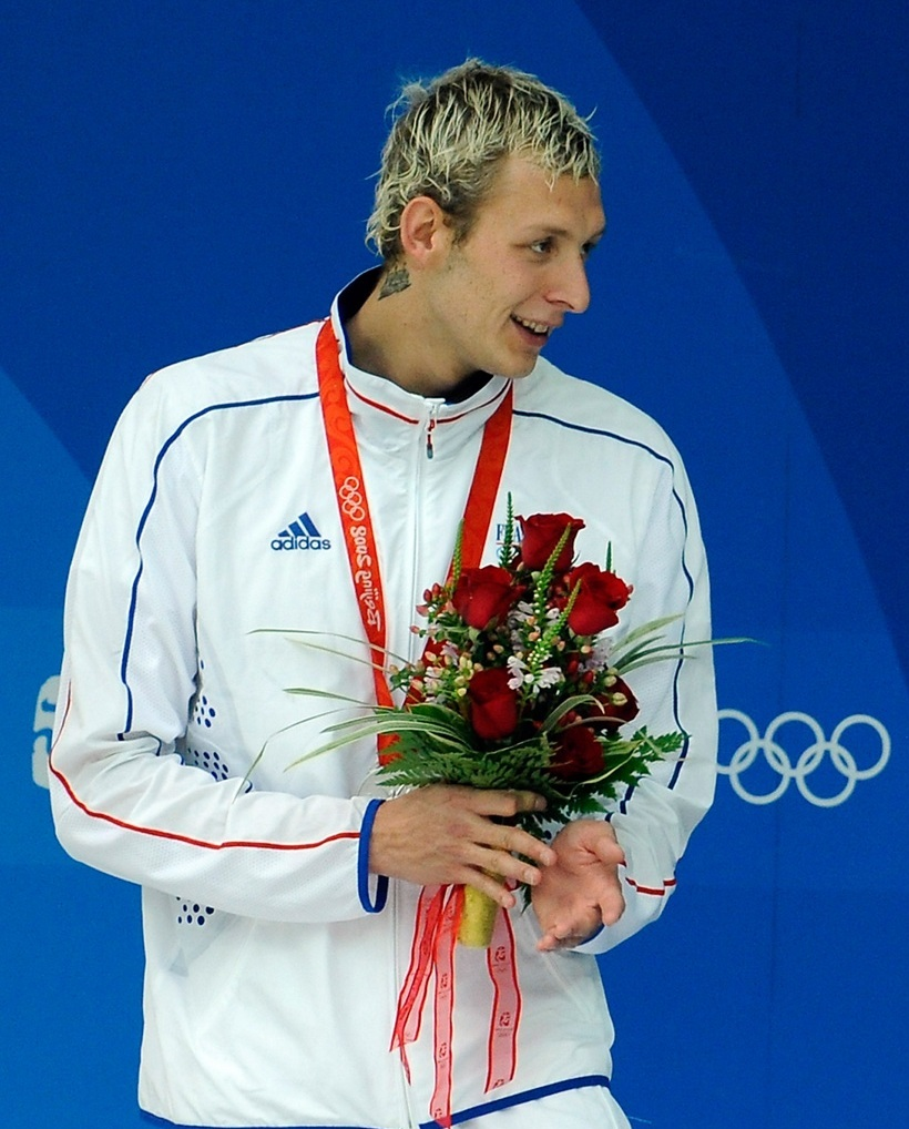 Amaury Leveaux (France) on the podium of the 50m at the Watercube, Beijing, august 16th 2008